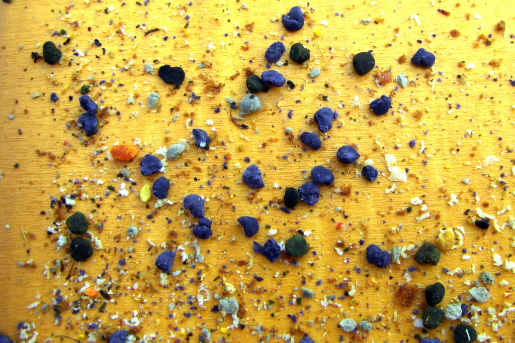 Pollen of Phacelia collected by bees (the purple one)/ Pollen der Phacelia, gesammelt duch Bienen (die violetten) /